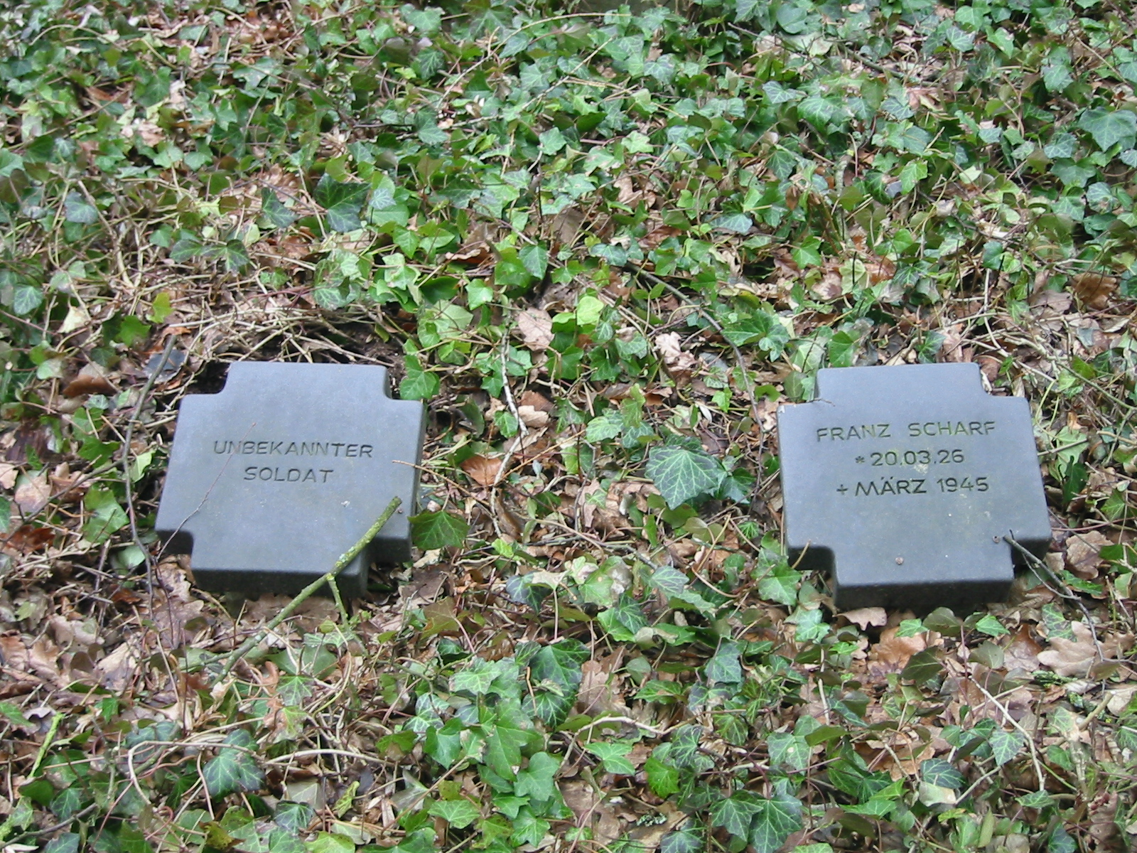 Grave of an SS-soldier and unknown soldier. Iron cross with stamped letters.